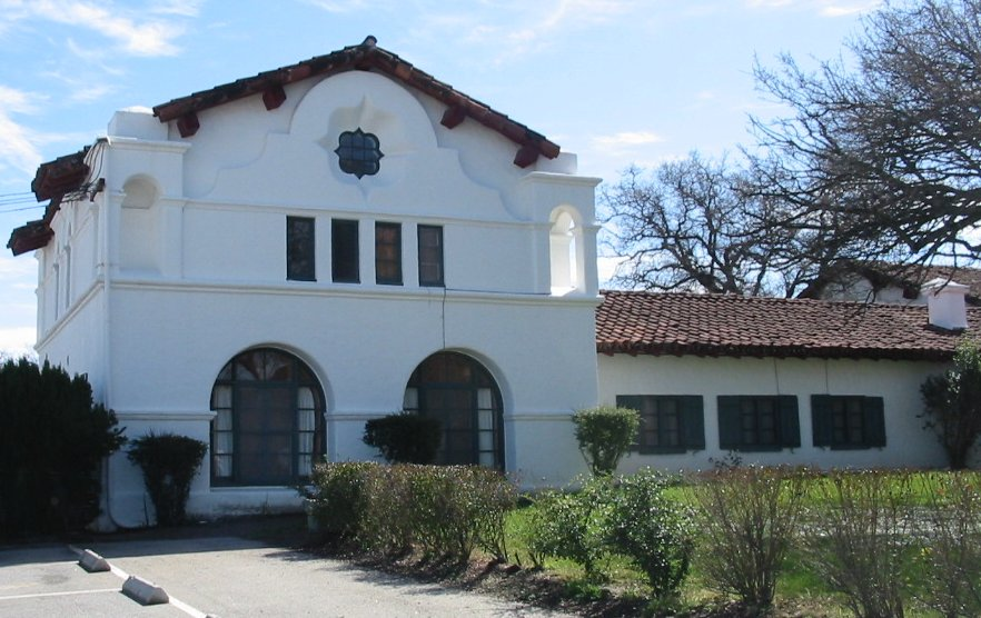 Southeast tower of the building known variously as The Hacienda, Hacienda Guest Lodge, Milpitas Ranch House, Milpitas Ranchhouse, and Milpitas Hacienda. This building was completed in 1930 by William Randolph Hearst and his architect Julia Morgan. It's operated today as a public hotel within the Fort Hunter Liggett US Army Reserve base.